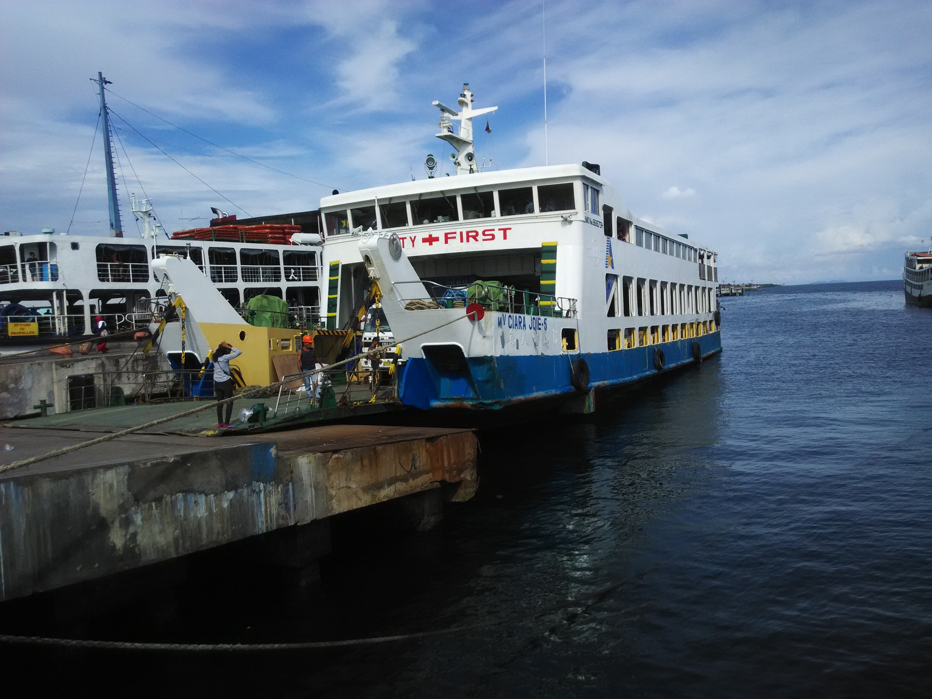 MV Ciara Joie 5, loading passengers at the Zamboanga International Seaport. Filipino Ship Enthusiast Coalition